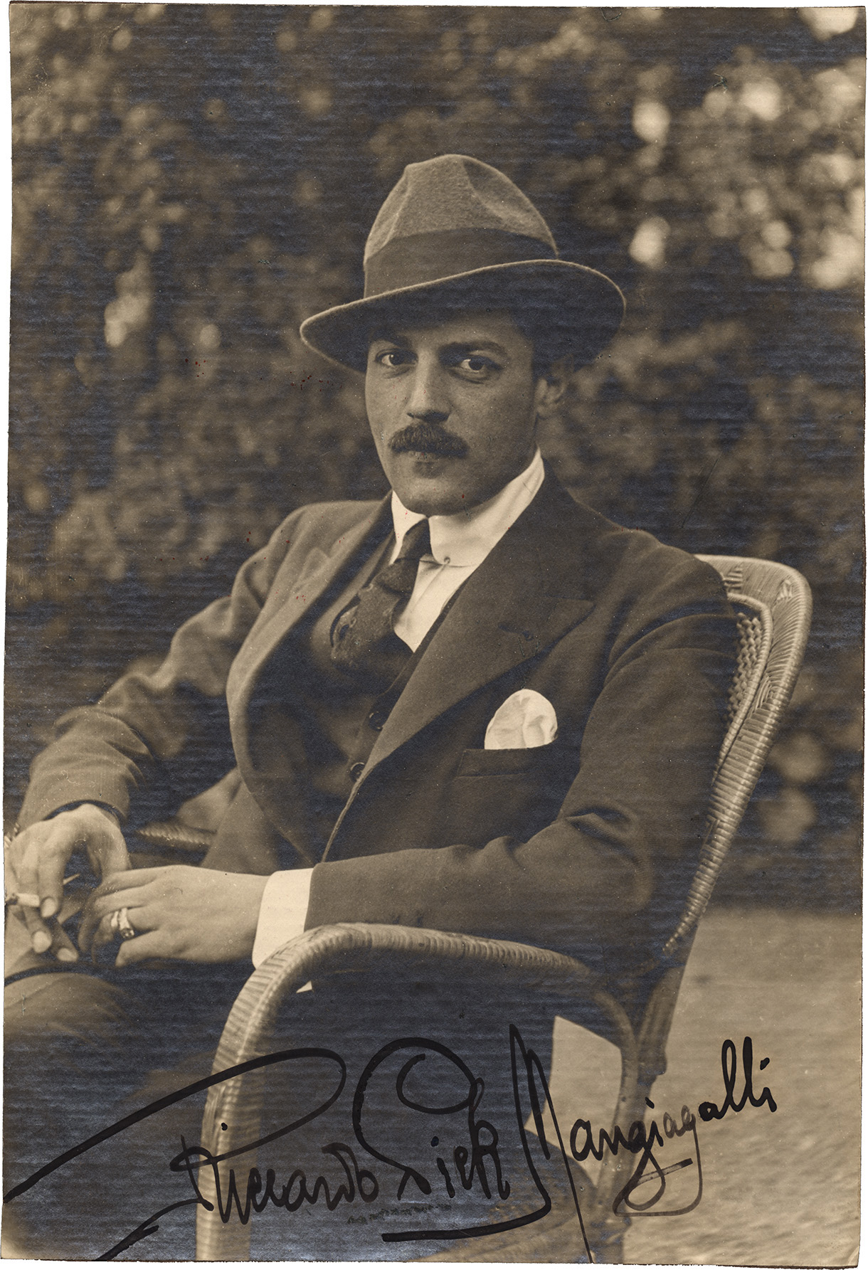 Portrait of Riccardo Pick-Mangiagalli, composer (1882-1949). Photo by unknown, before 1949.